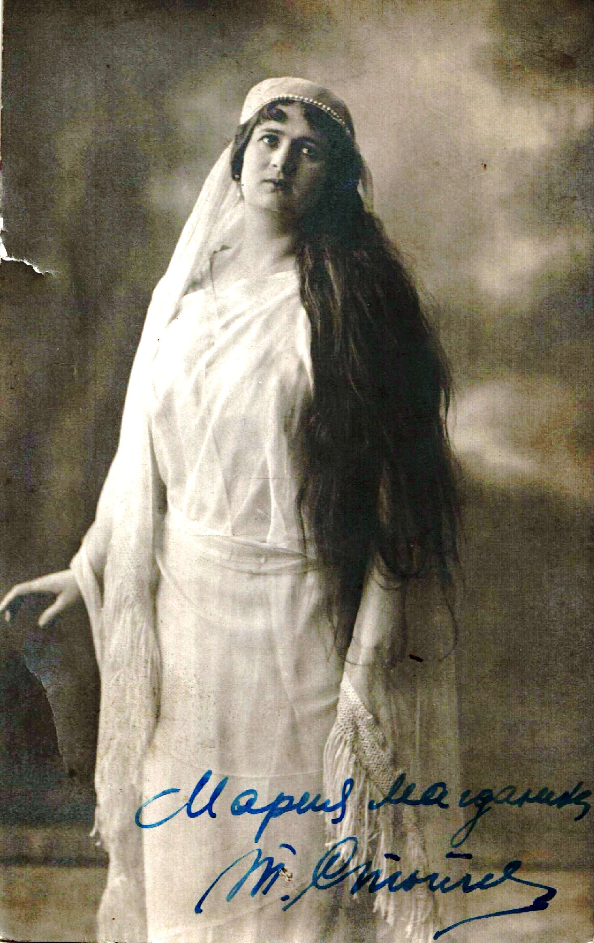 Bulgarian actress Teodorina Stoycheva (1887-1956)